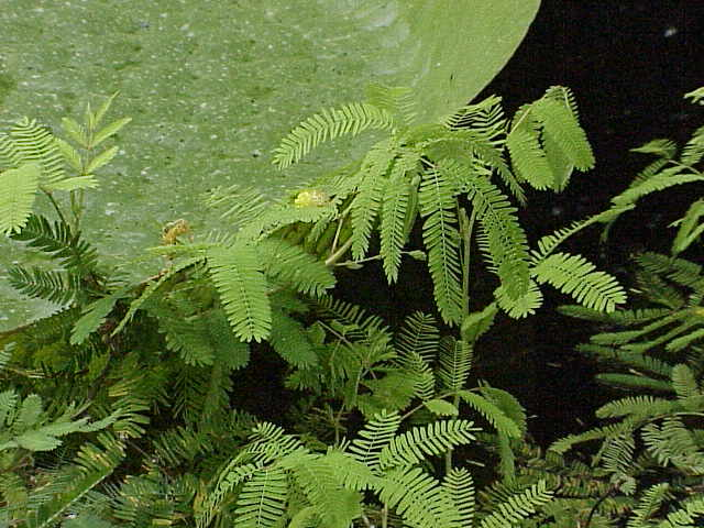 Species: Neptunia oleracea Family: Mimosaceae Image No. 1